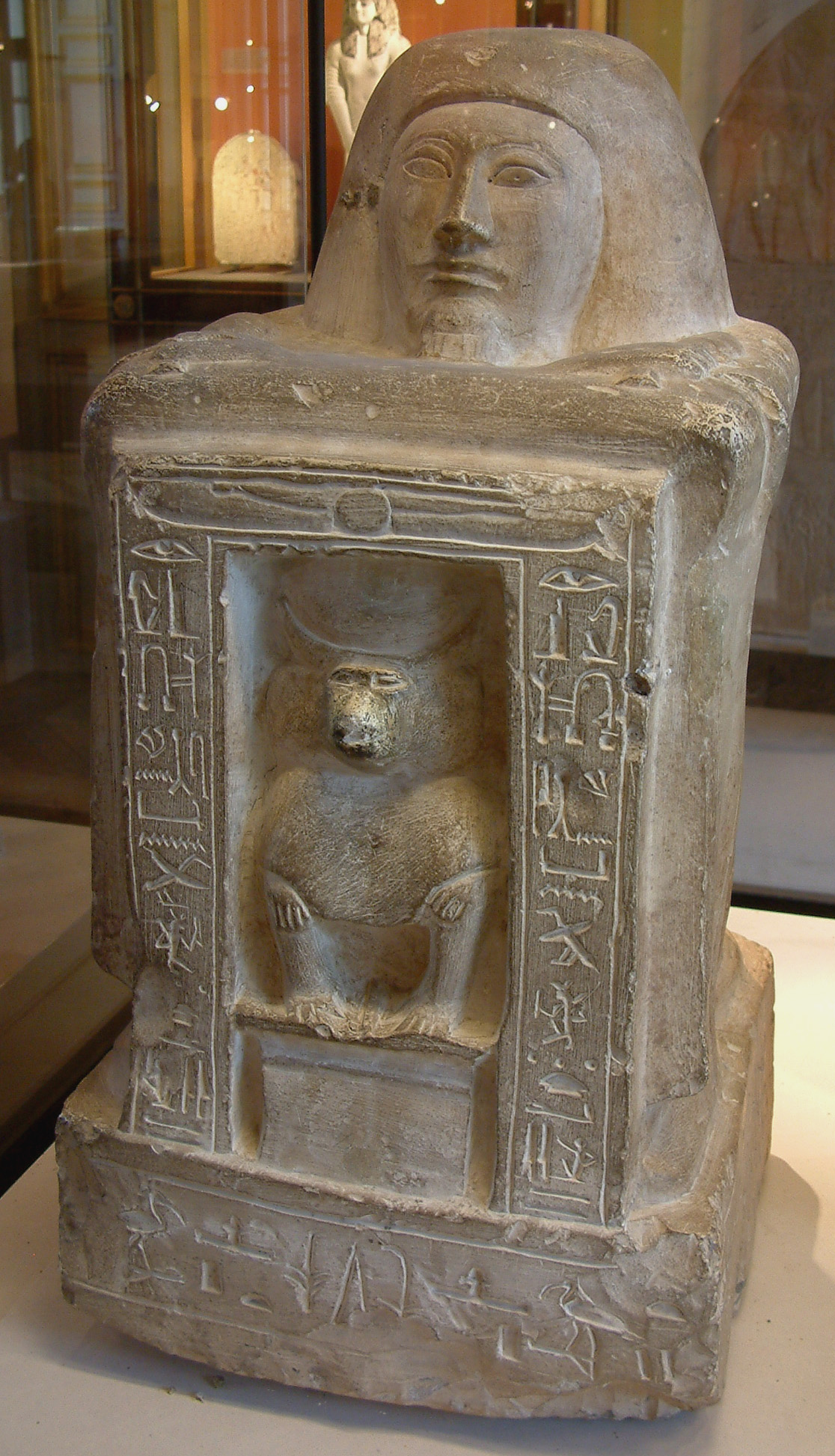 Block-statue of Khâÿ, scribe for the general staff, holding a chapel to Thot-Djehuty, titulary god of scribes. Limestone, New Kingdom period. The scribe's name is made of: Kh'-i-(determ-Man)-y(ii, for ee). The hieroglyphs are: rising sun-Arm-(determ-man-(adoring))-2-reeds(ii).